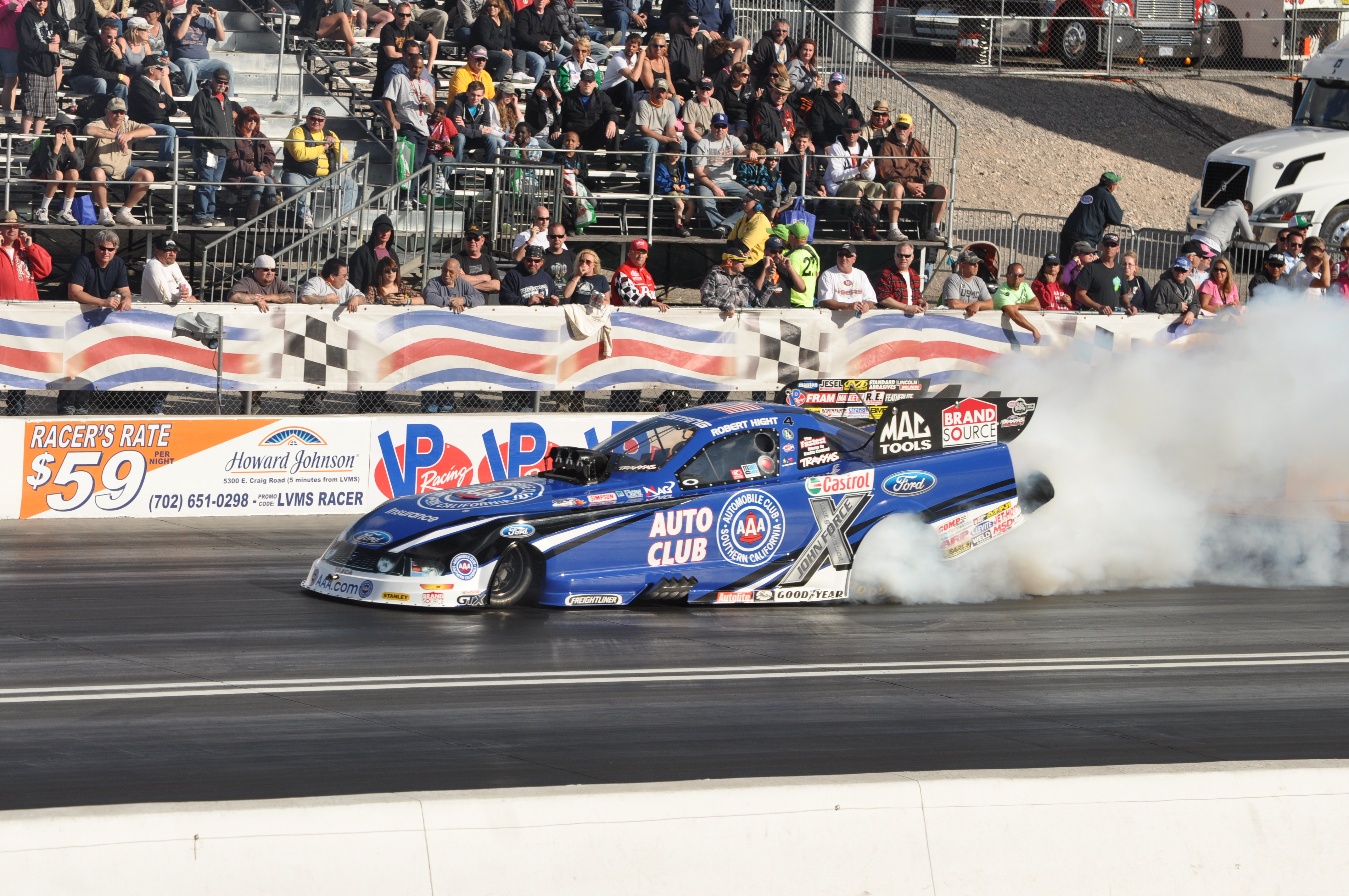 Robert Hight does a Burnout in his 2012 JFR Ford Mustang Funny car at LVMS